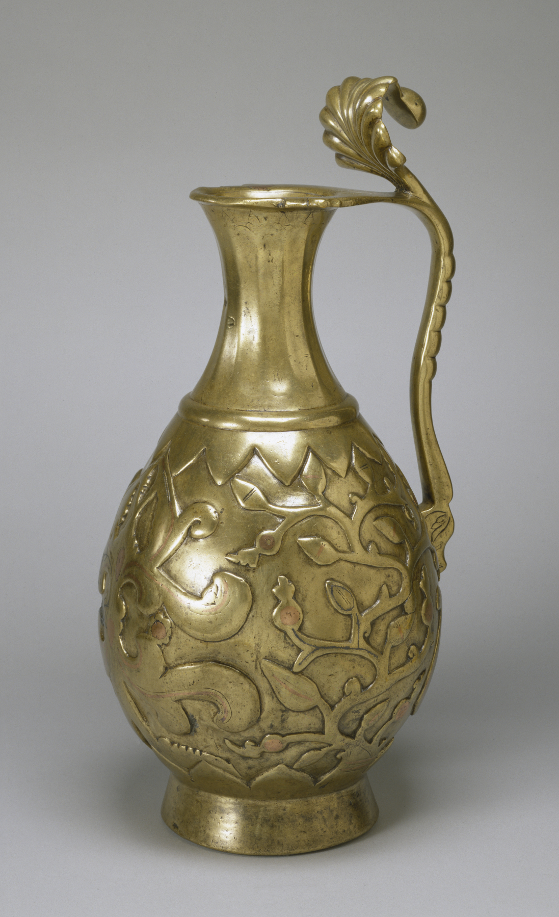 This ewer with geometric and floral designs, exemplifies a group of cast brass ewers, which may belong to the earliest known examples of Islamic metalwork. It is distinguished by its pear-shaped body, elegant palmette handle, and vegetal designs in bold relief.